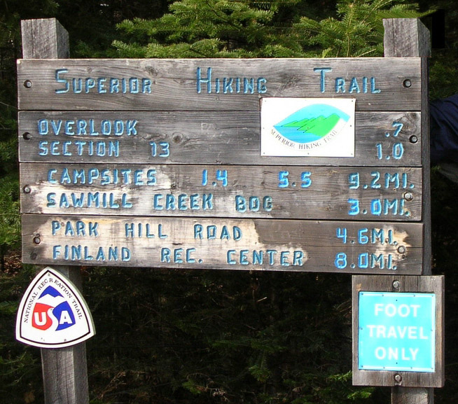 Sign for Superior Hiking Trail near Little Marais, Minnesota, USA. Photo by Greg Seitz. *